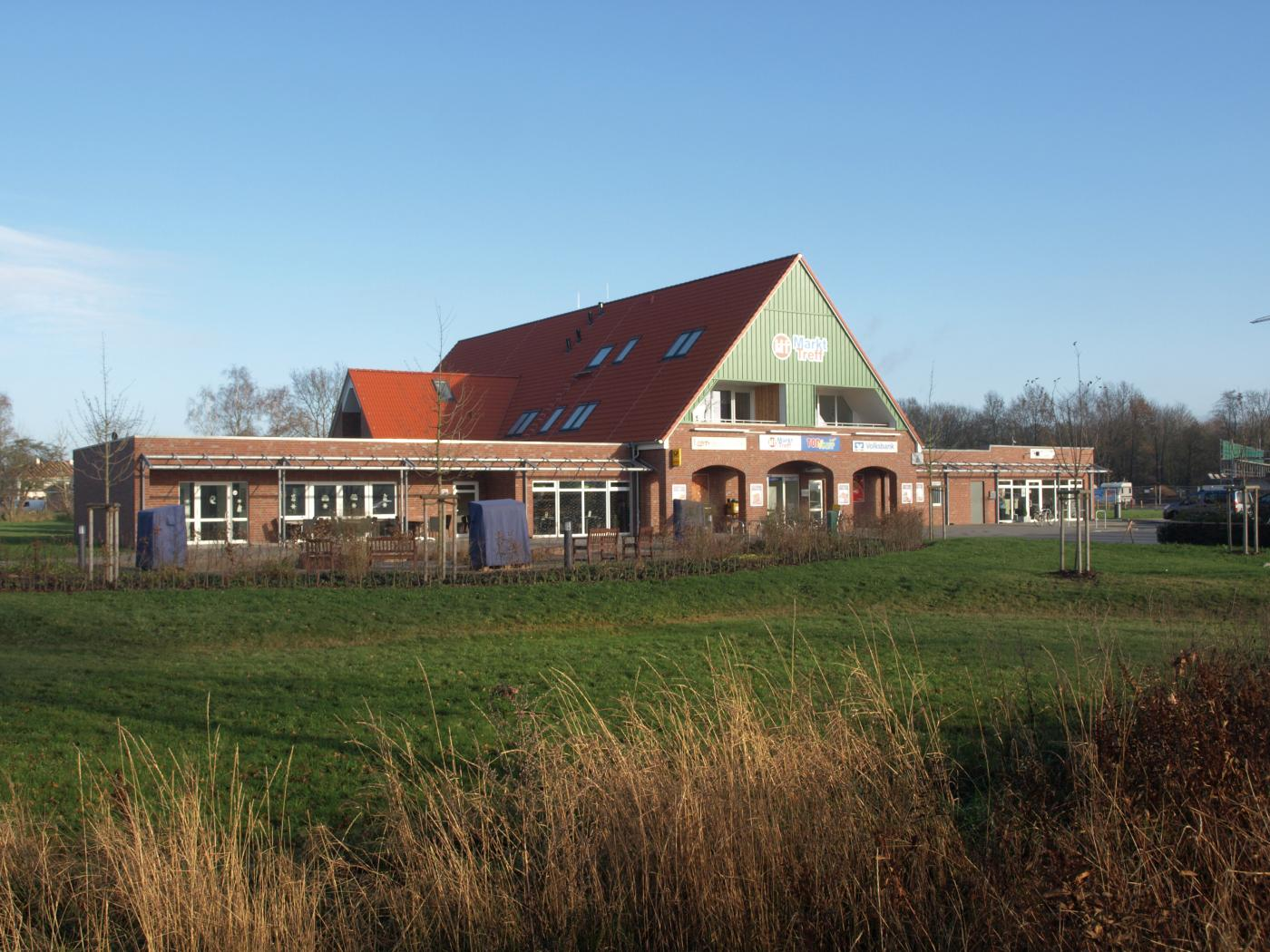 Template:Markttreff Heidgraben, Foto 2014